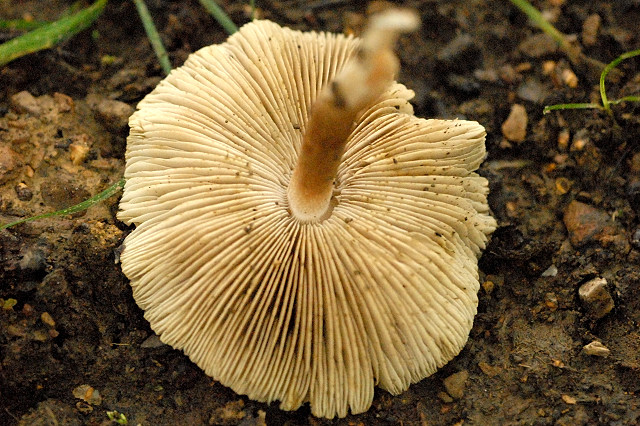 Inocybe maculata from Commanster, Belgium. If you think this is a different taxon, please contact James Lindsey.